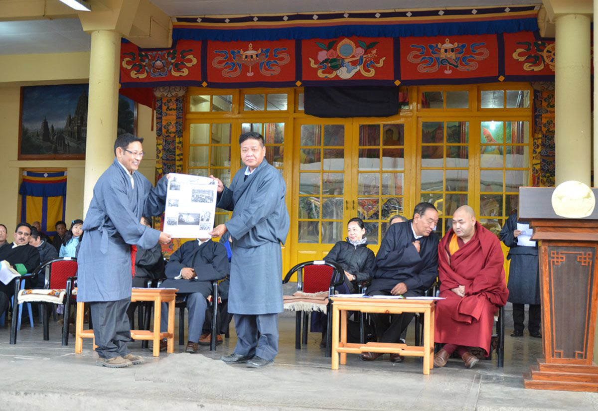 The Dharamshala-based news agency the Tibet Post International (TPI) has launched a fortnightly newspaper. The eight-page broadsheet, containing a wide range of news and features covering events both inside Tibet and the exiled Tibetan world, was launched by the Tibetan Parliament-in-exile’s Speaker, Penpa Tsering, at the Dalai Lama’s main temple in McLeod Ganj, on Monday, December 10, 2012, to coincide with International Human Rights Day and the 23rd anniversary of the conferment of the Nobel Peace Prize to the Dalai Lama.